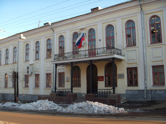 The regional court of Kirov region. Old building.